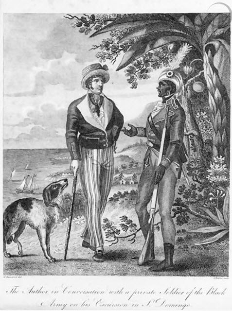 Captain Marcus Rainsford Officer and Author